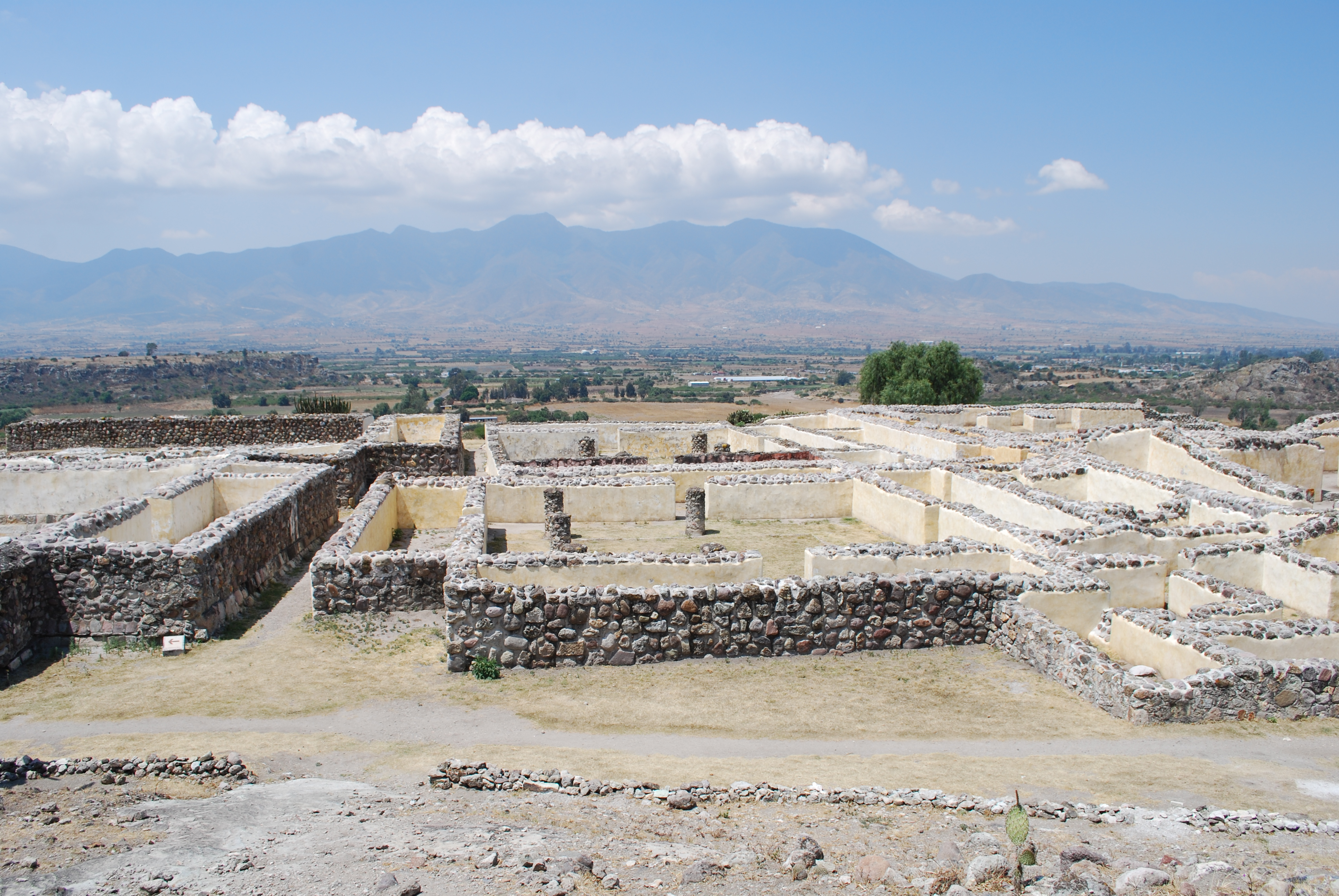 Overview of the Palace of the Six Patios in Yagul, Oaxaca, Mexico